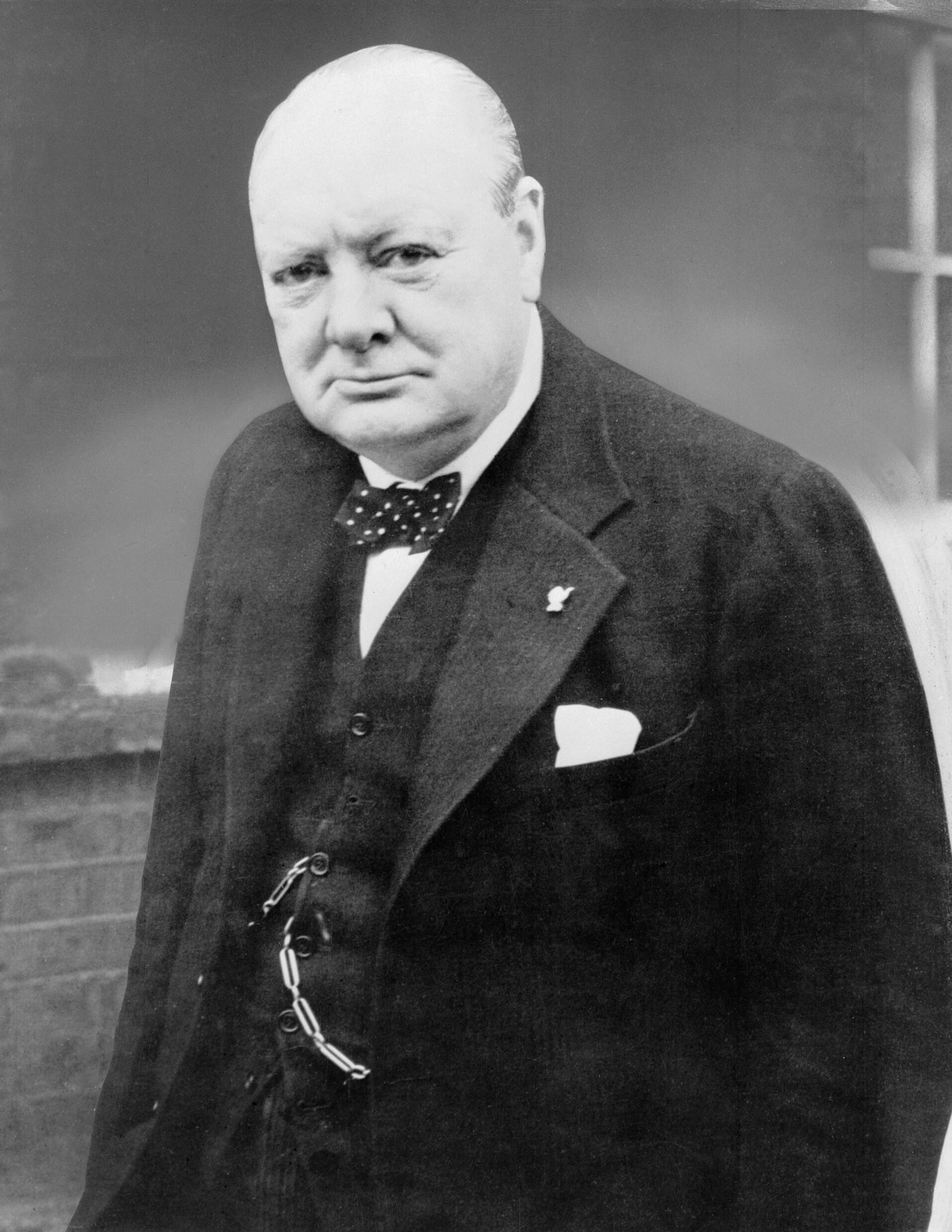 Winston Churchill, Prime Minister of the United Kingdom from 1940 to 1945 and from 1951 to 1955.